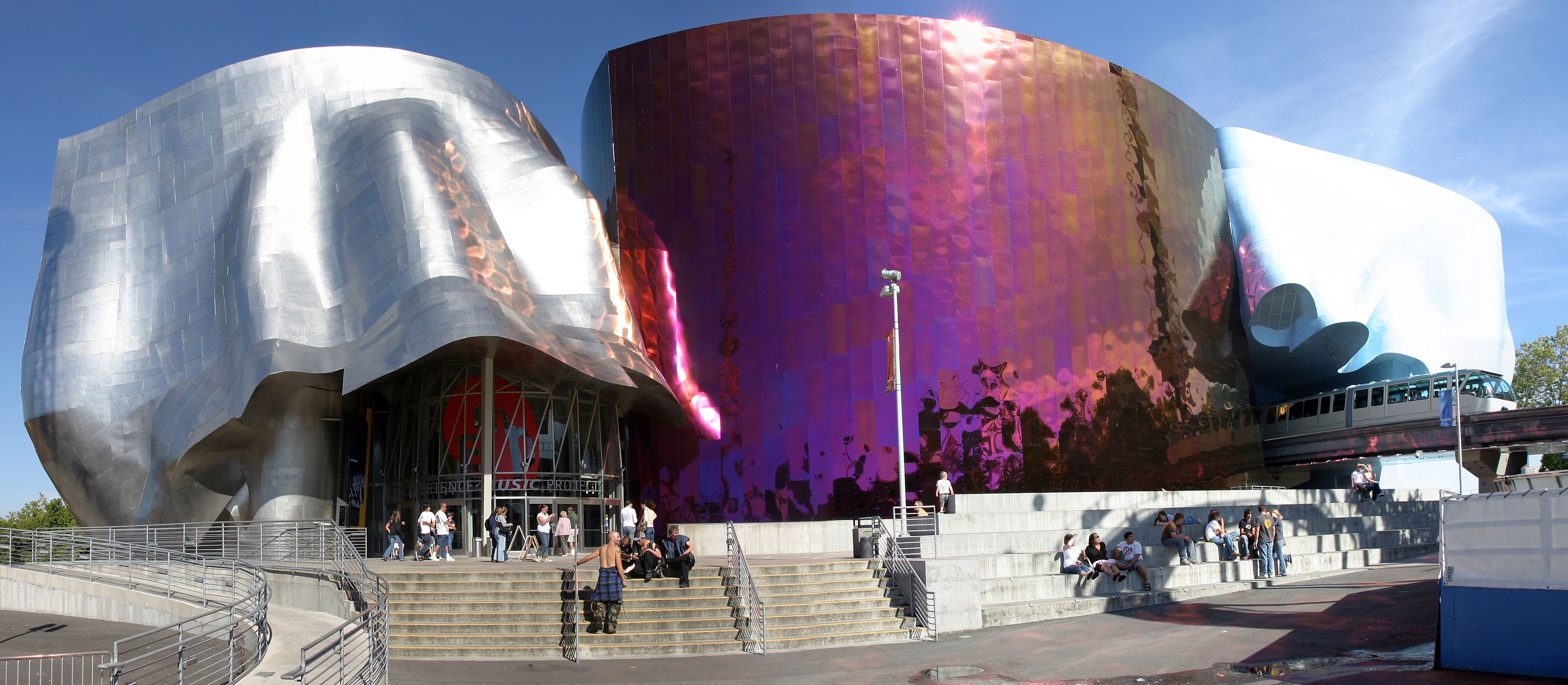 The Museum of Pop Culture (formerly Experience Music Project) at the Seattle Center.